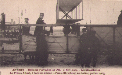 The then Prince Albert of Belgium in the gondola of the airship Zodiac during the Antwerp Aviation Week (23-10/2-11-1909).